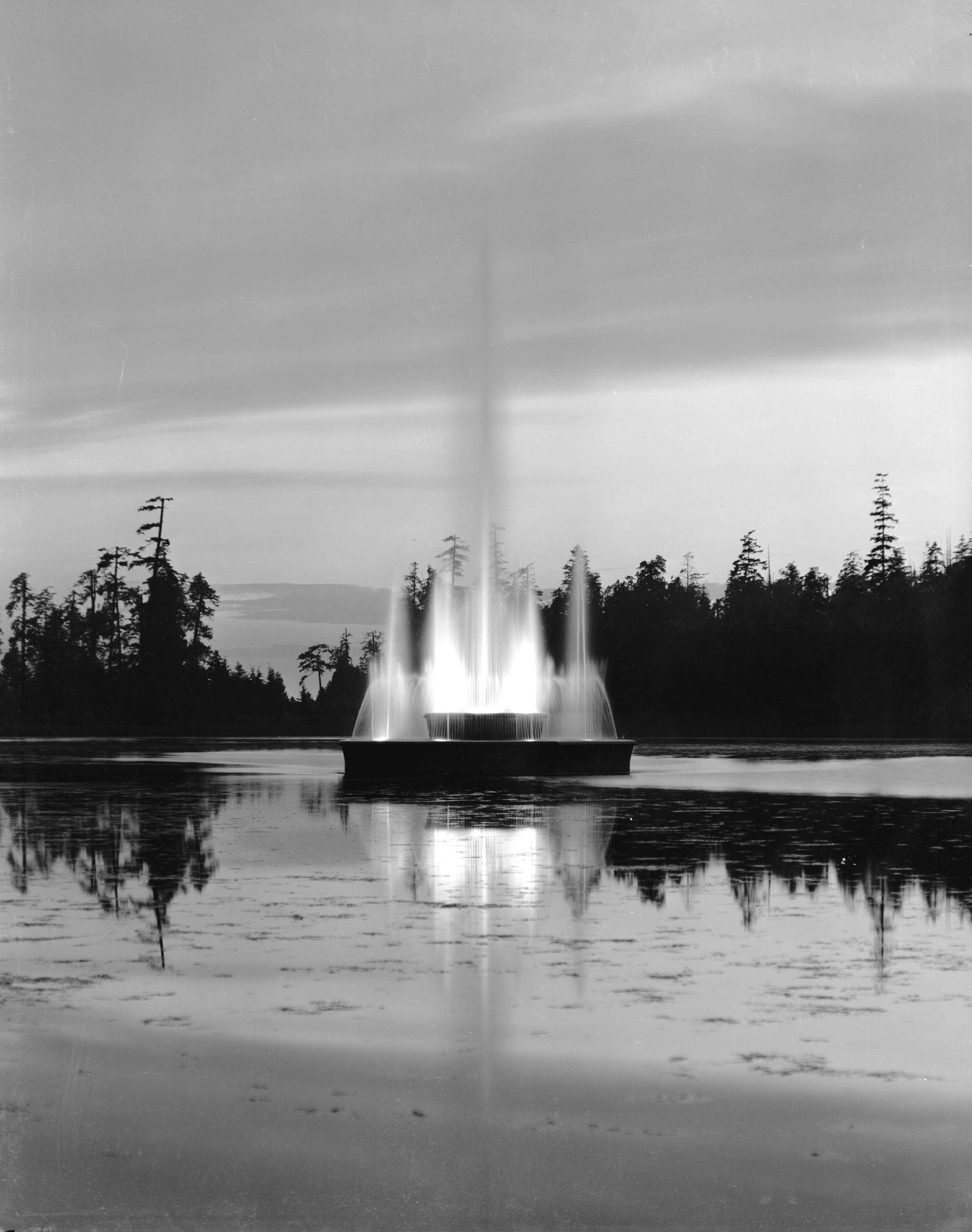 Jubilee Fountain in Lost Lagoon, 1936, in Stanley Park, Vancouver, Canada. 1936 was the fiftieth (the "Golden Jubilee") of Vancouver's incorporation in 1886.